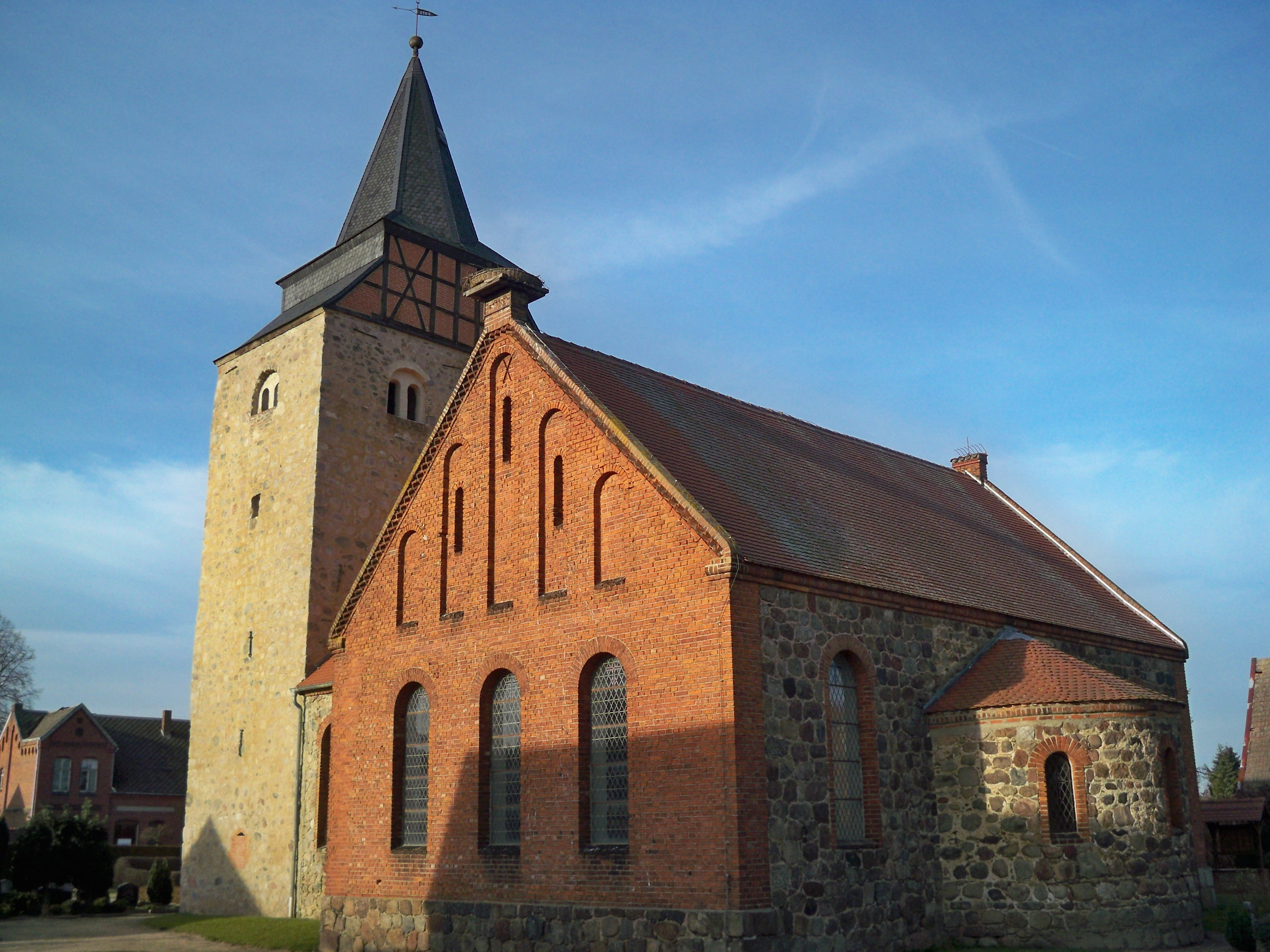 Rohrberg, Saxony-Anhalt, village church from southeast